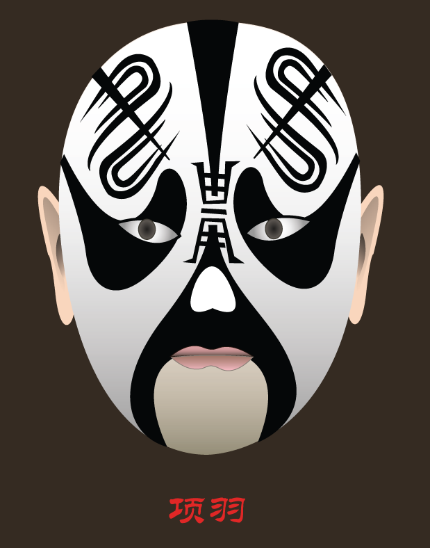 Traditional Beijing Opera Mask for "Xiang Yu", prince of Chu. Adobe Illustrator illustration.